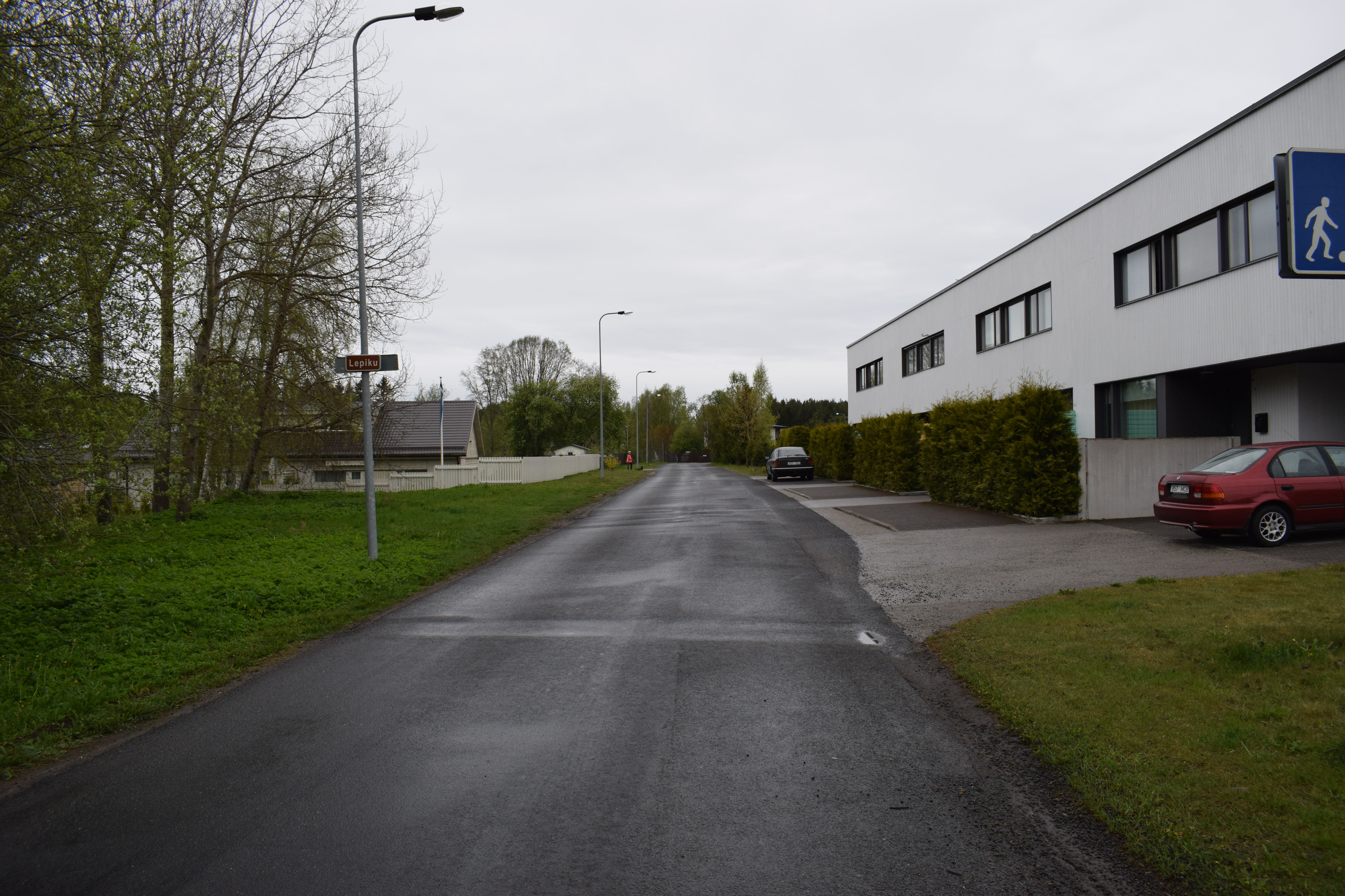 Lepiku street